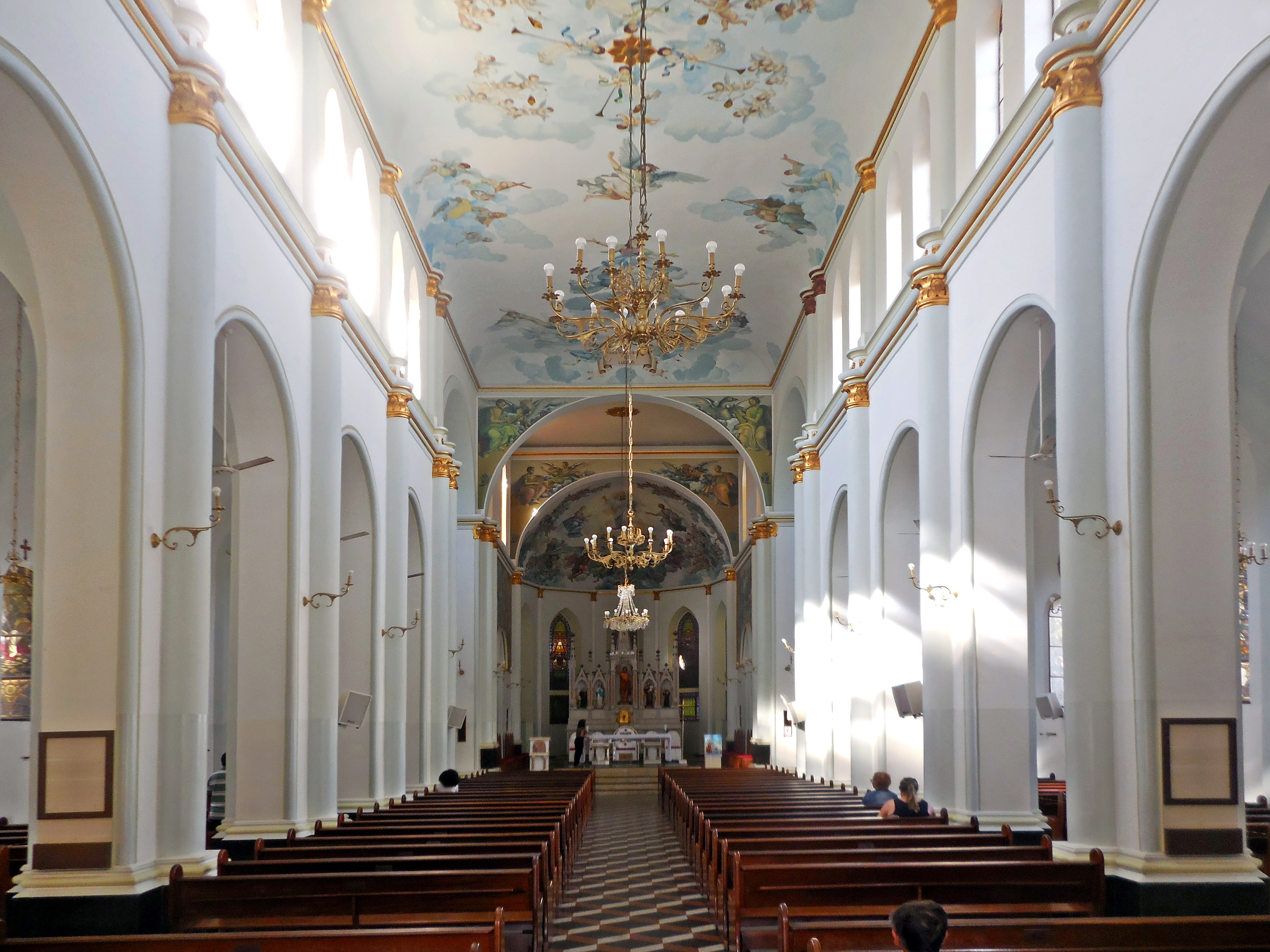 Interior of the Saint John the Baptist Cathedral, in Caratinga, Minas Gerais, Brazil.